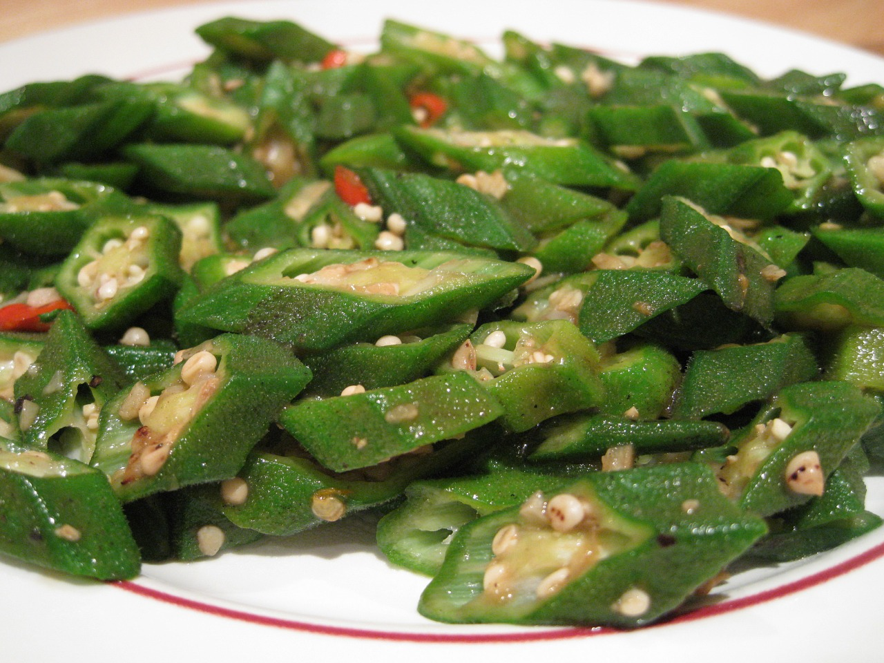 Stir fried okra with garlic and chilli.